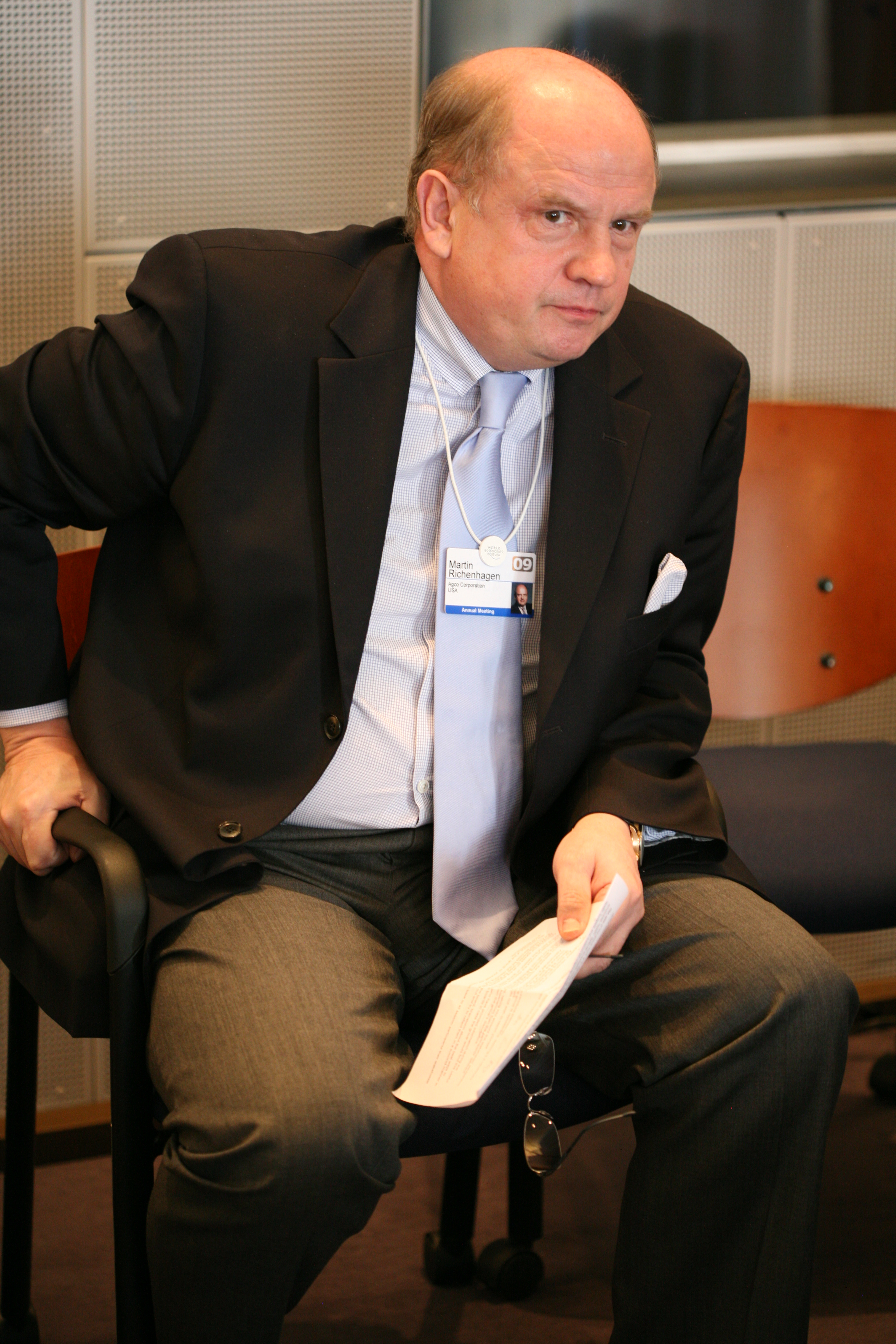 Martin Richenhagen, CEO of AGCO Corporation, at the World Economic Forum 2009 in Davos, Switzerland.